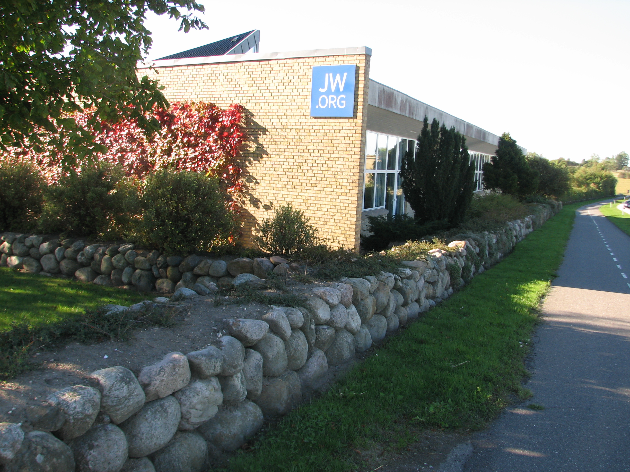 "Jehovah's Witnesses Assembly Hall" - Herlufmagle, Danmark